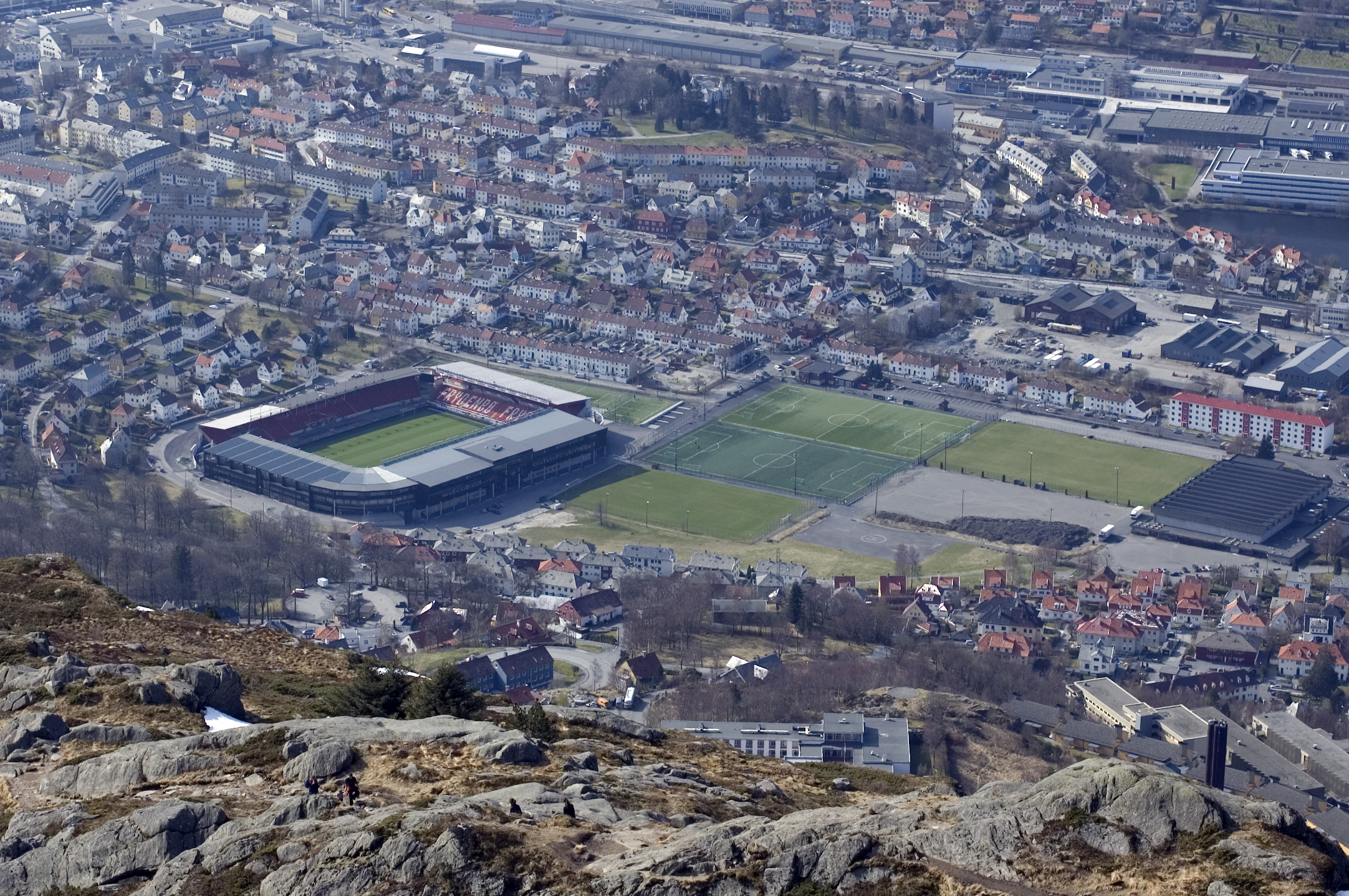 Brann Stadion with surrounding football training fields viewed from Ulriken